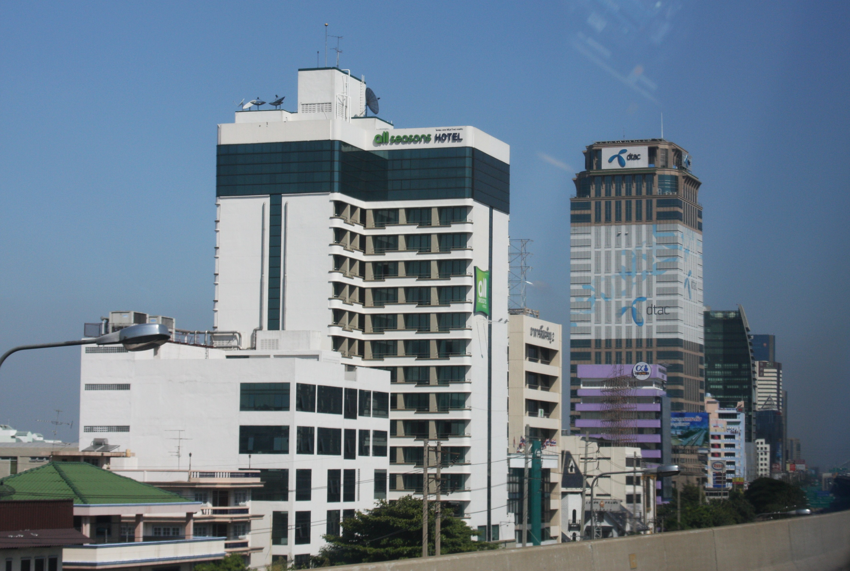 DTAC hq, northern Bangkok